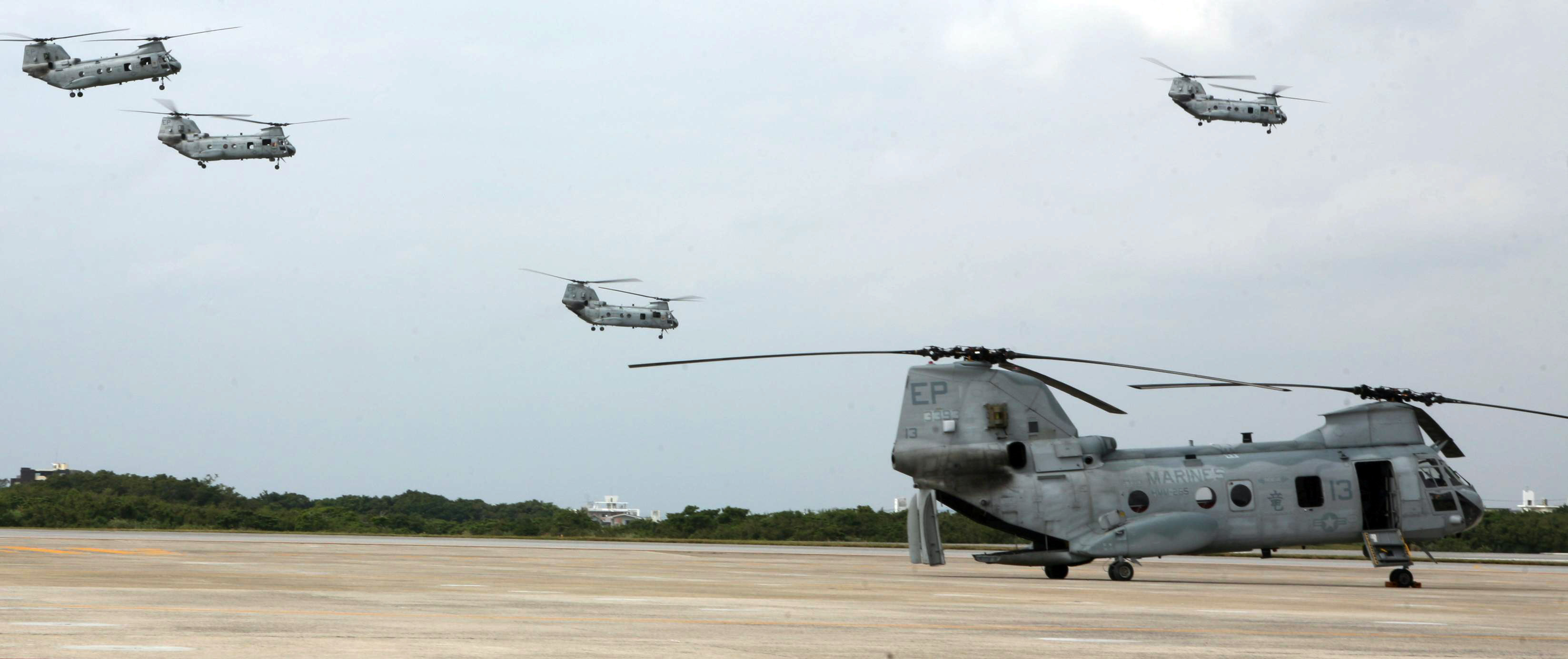 MARINE CORPS AIR STATION FUTENMA, Okinawa (March 12, 2011) CH-46E Sea Knight helicopters assigned to Marine Medium Helicopter Squadron (HMM) 265, depart for Naval Air Facility Atsugi on mainland Japan to provide assistance after an 8.9 magnitude earthquake and a tsunami struck Japan. The helicopters will fly more than 1,000 miles over open water with emergency equipment. (U.S. Marine Corps photo by Lance Cpl. Dengrier Baez/Released)